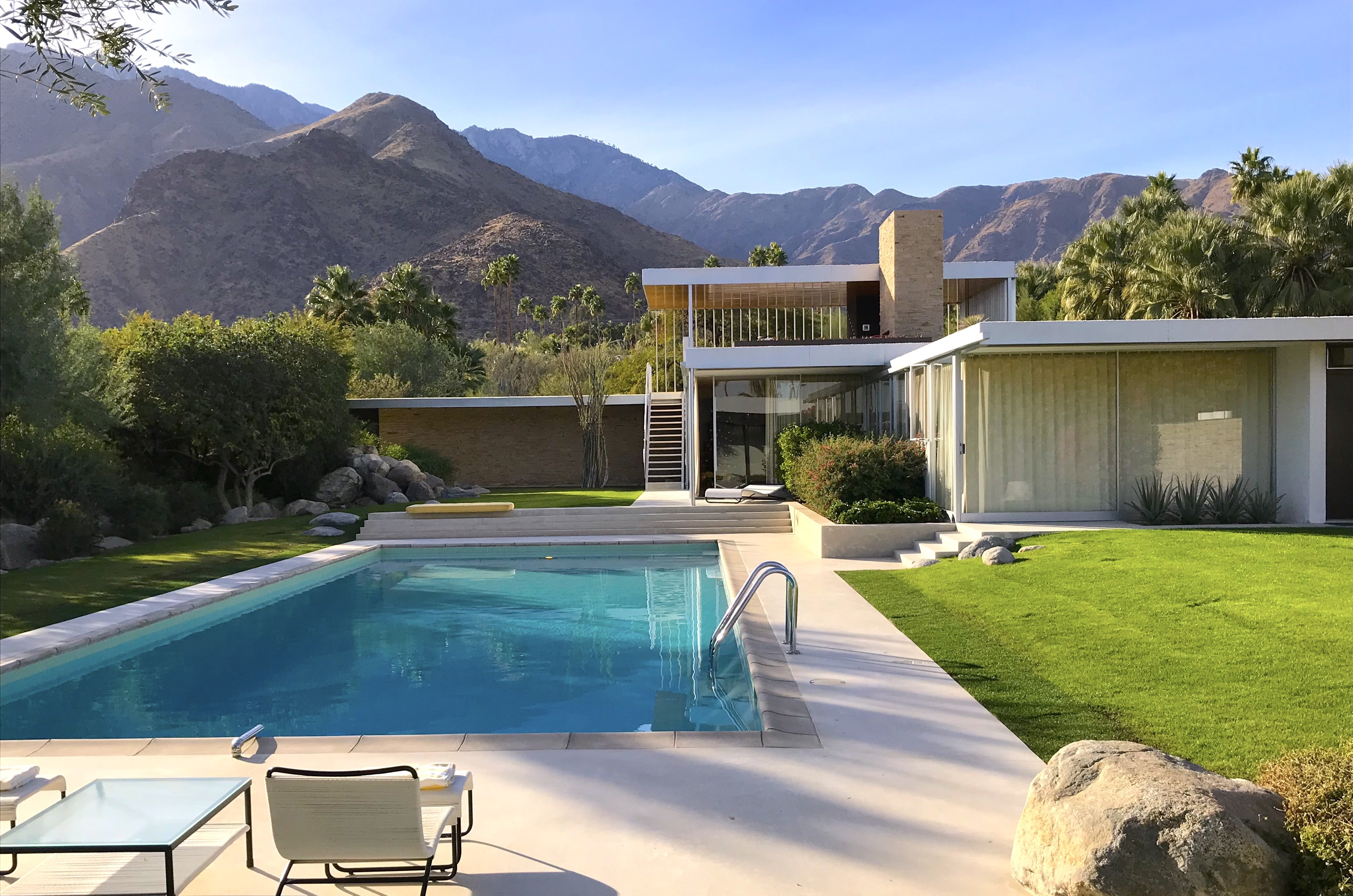 View of the Kaufman House from the pool deck